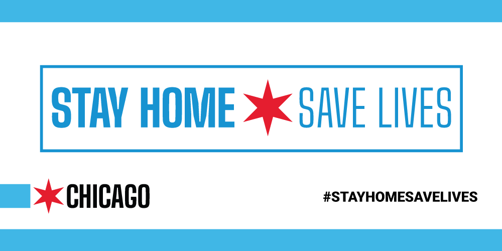 Stay Home Save Lives Chicago